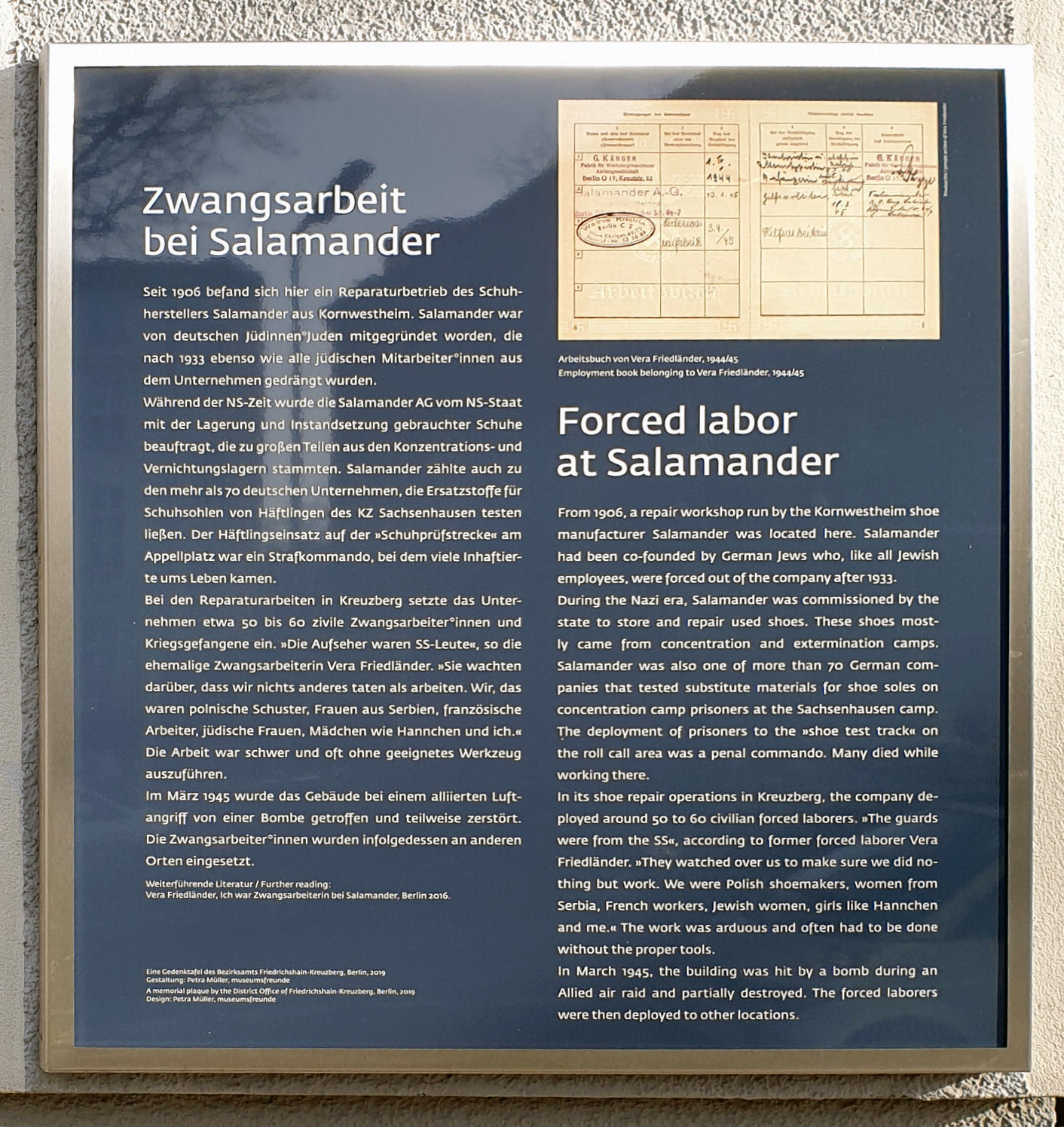 Memorial plaque, Salamander GmbH, Köpenicker Straße 6a, Berlin-Kreuzberg, Deutschland